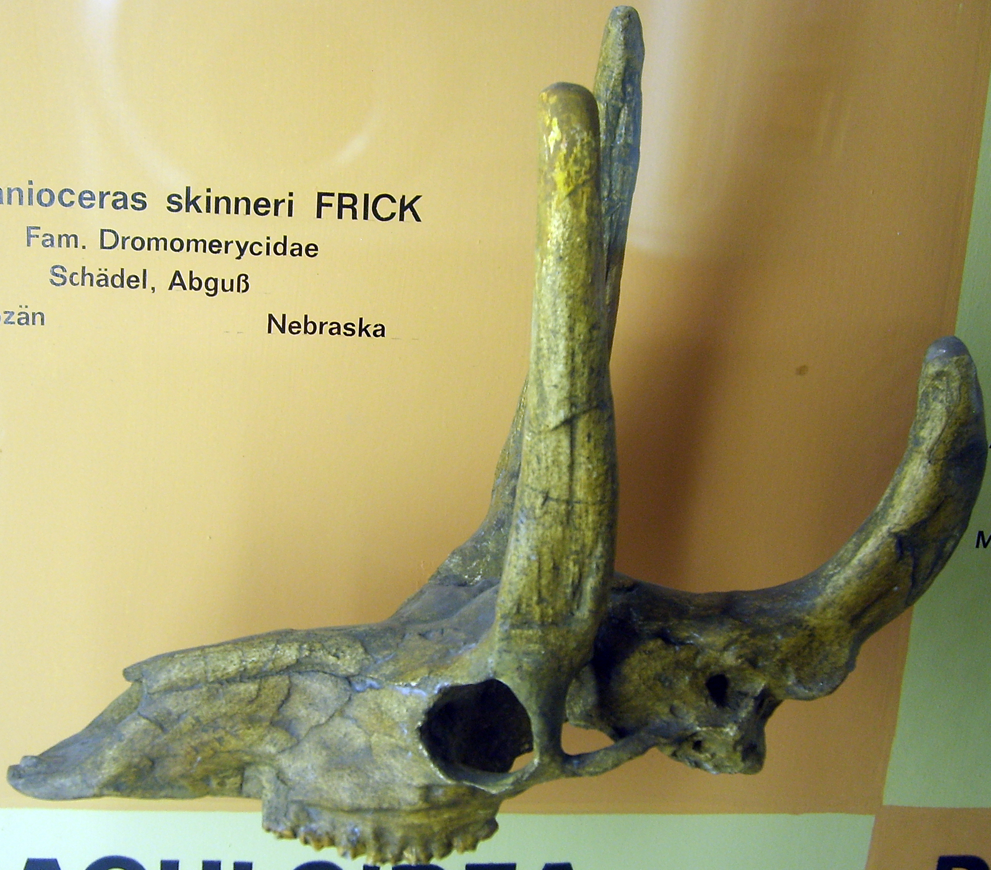 Cranioceras (or Procranioceras according to some studies) skinneri skull cast at the Museum für Naturkunde, Berlin.